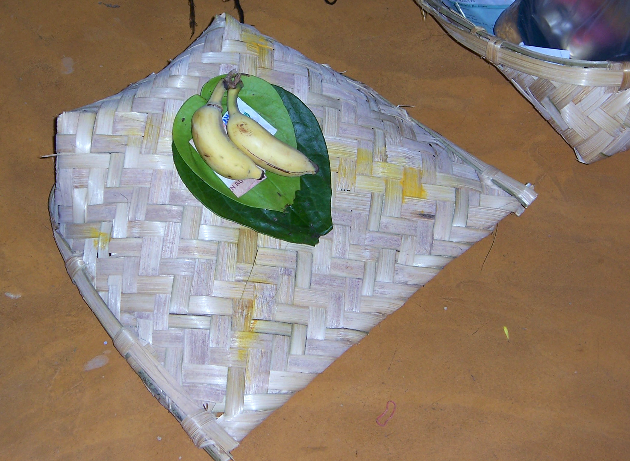 Gowri Habba The Gowri Baagna items are placed inside a mora, which is a traditional bamboo kitchen utensil made for dehusking rice. Another mora is placed on top, creating a closed container. Criss crossing turmeric lines are drawn on the covering utensil, along with vermilion dots on the intersection. In Karnataka region, this package is gifted with the words "Muttaide (married woman), muttaide, baagna togo (take), baagna kodu (give)", and traditional protocol dictates that this package can be given only to married women capable of reciprocating the gift, meaning they must also have performed the Swarna Gowri Vratha.